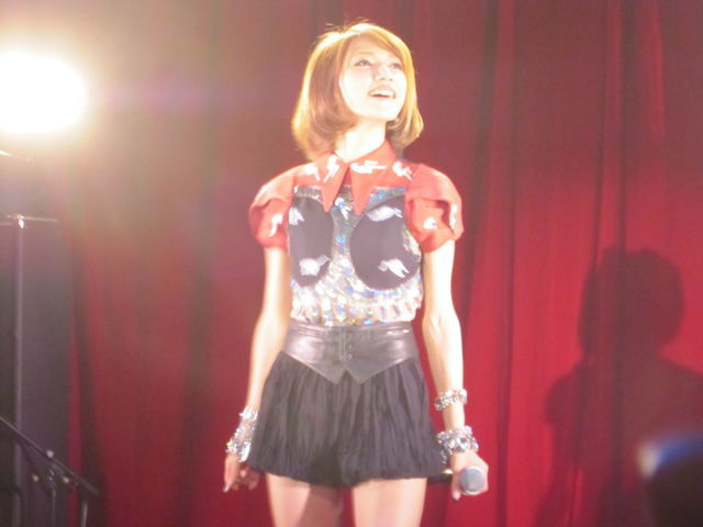 Maki Goto @ her mini live on June 3, 2010